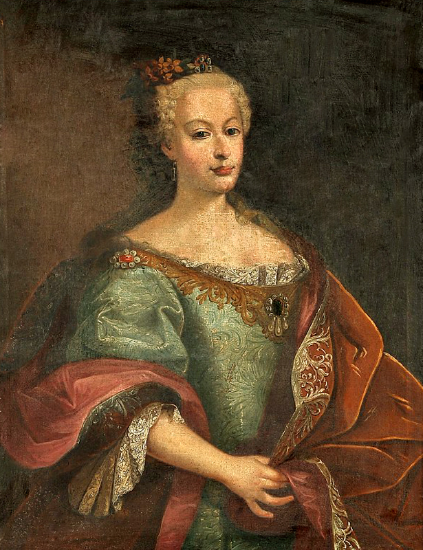 Painting of the eighteenth century. Without copyright. Anonymous author, portuguese school.